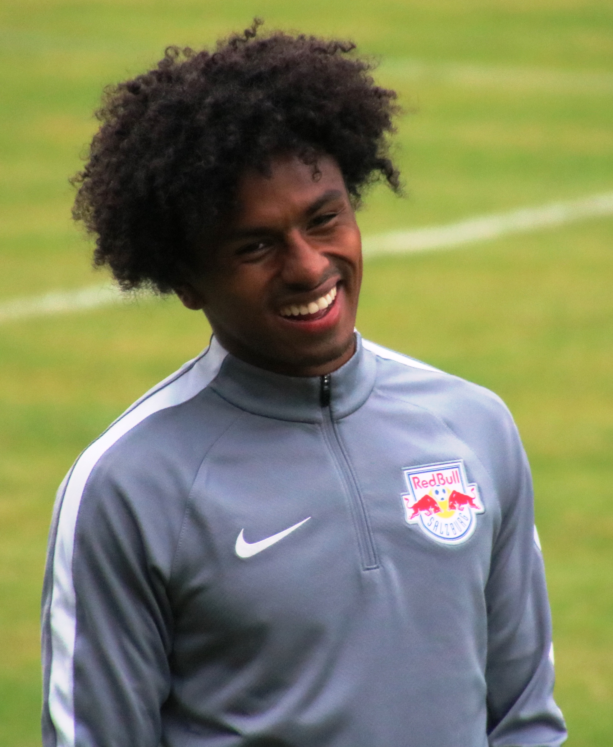 friendly match preseason